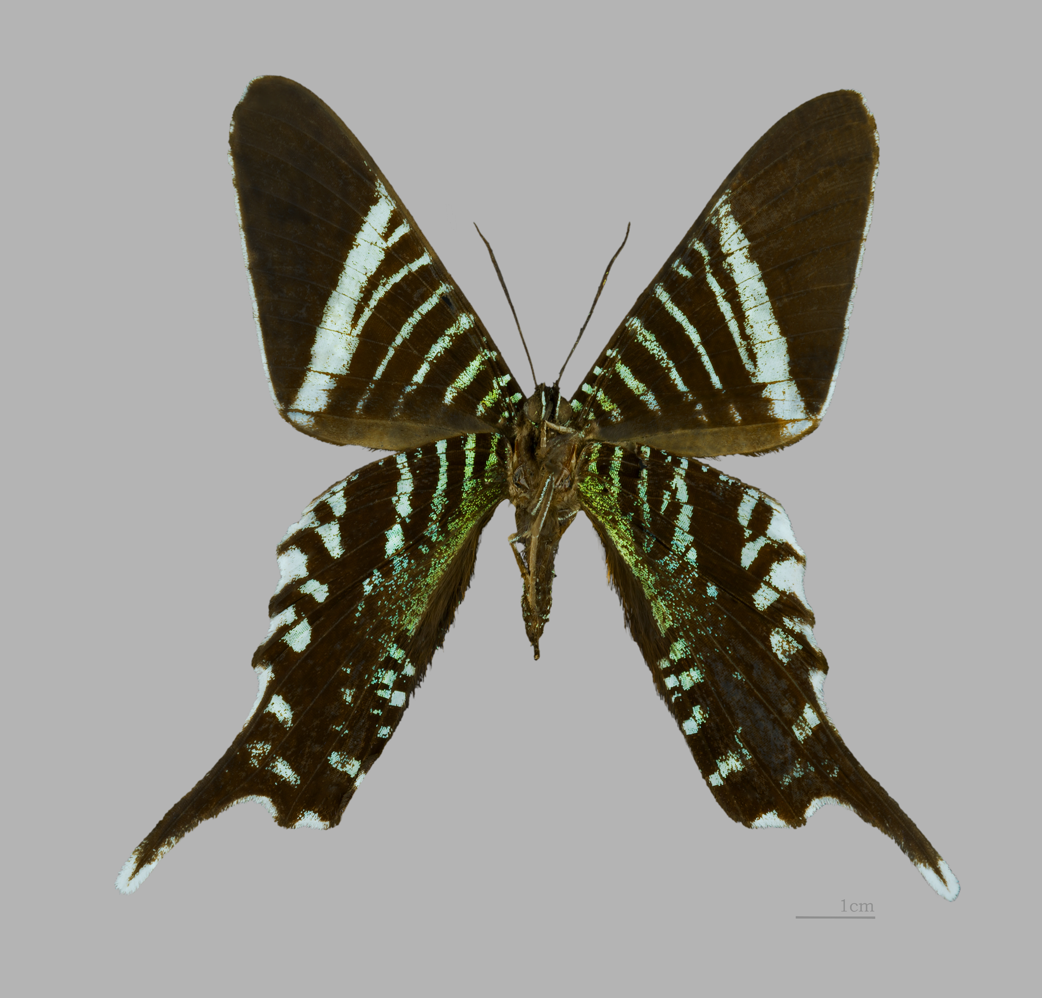 Urania Swallowtail Moth - △ Ventral side